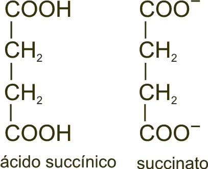 succinic acid and succinate formula jpg